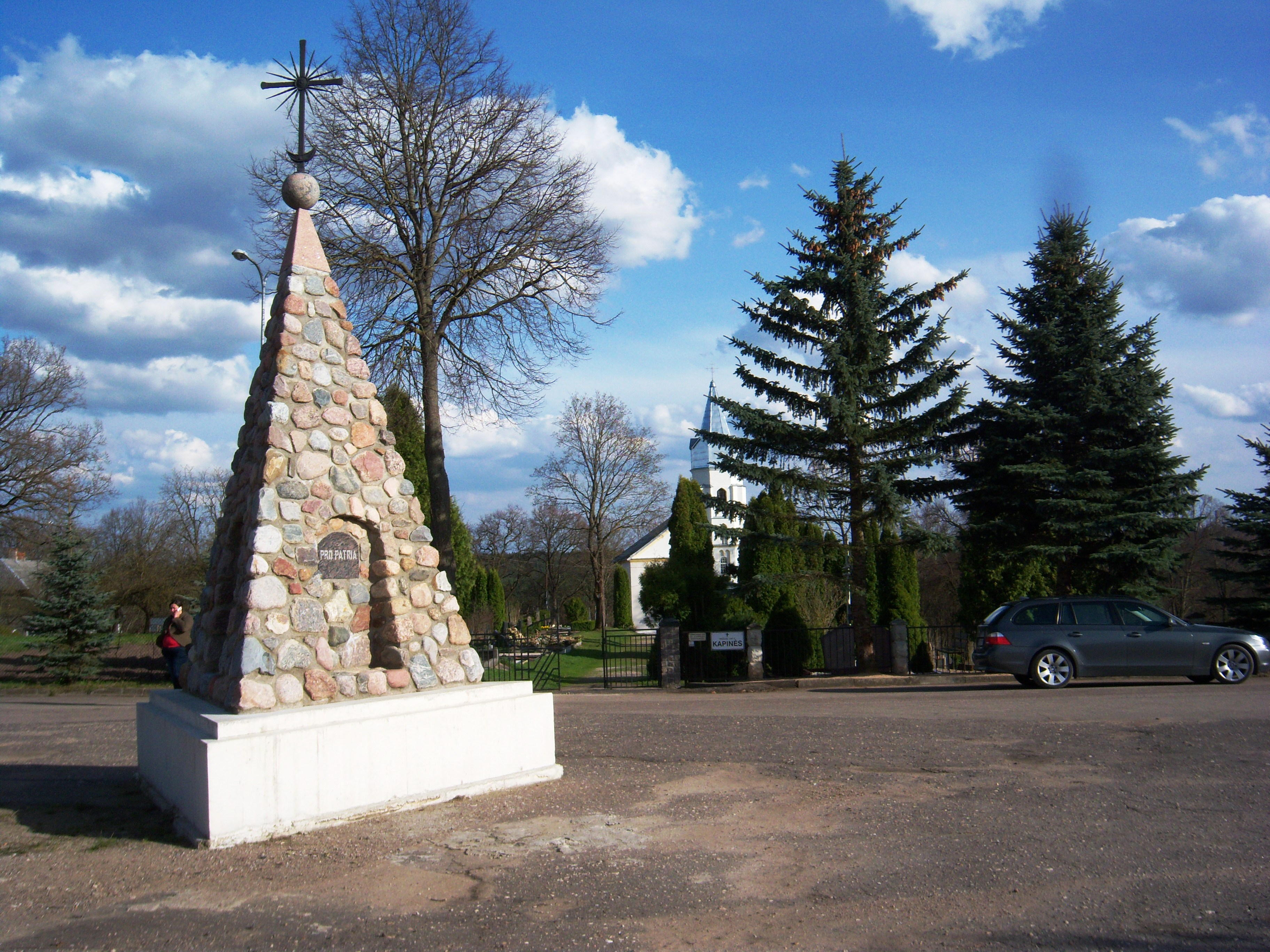 Independence monument (erected in 1928), Lapės, Kaunas district, Lithuania